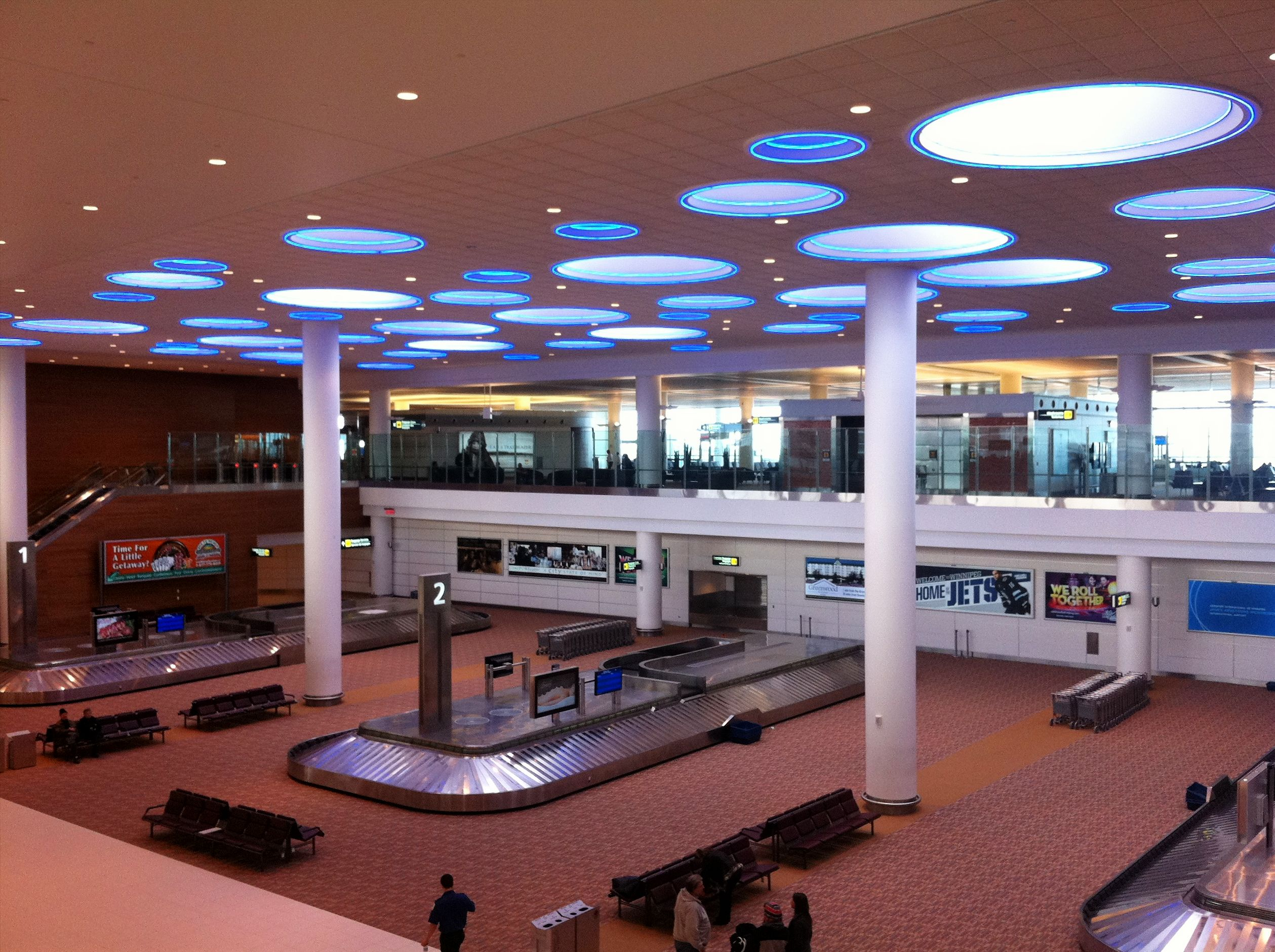 Arrivals area at Winnipeg International Airport